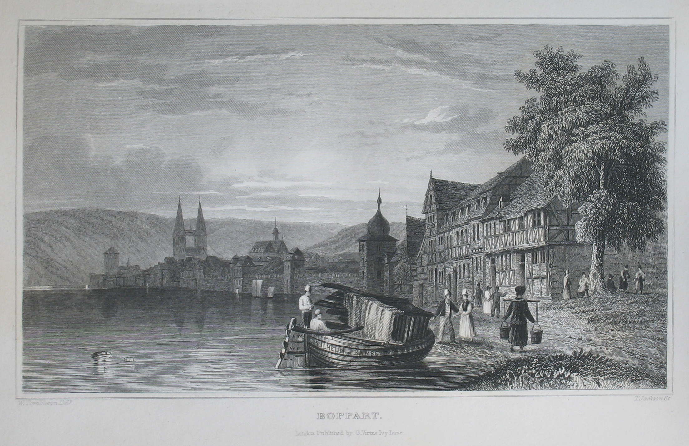 Steel engraving from "Views of the Rhine" by William Tombleson (around 1840): Boppard